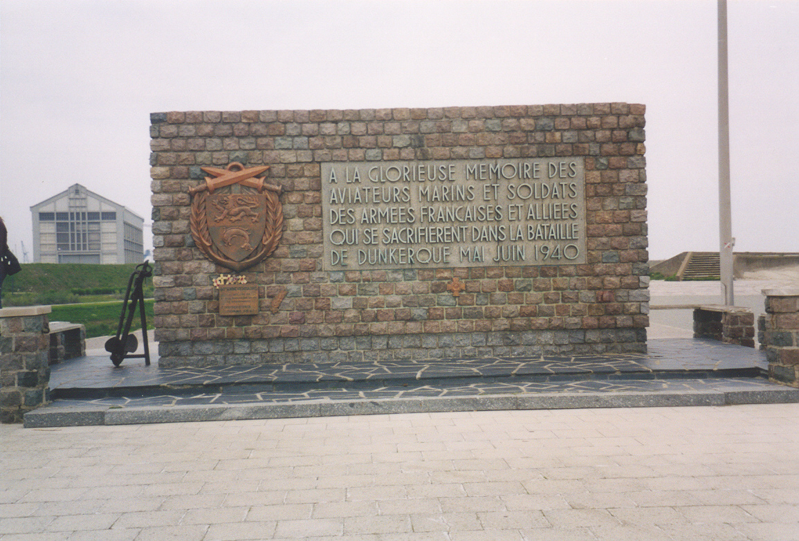 Battle of Dunkerque